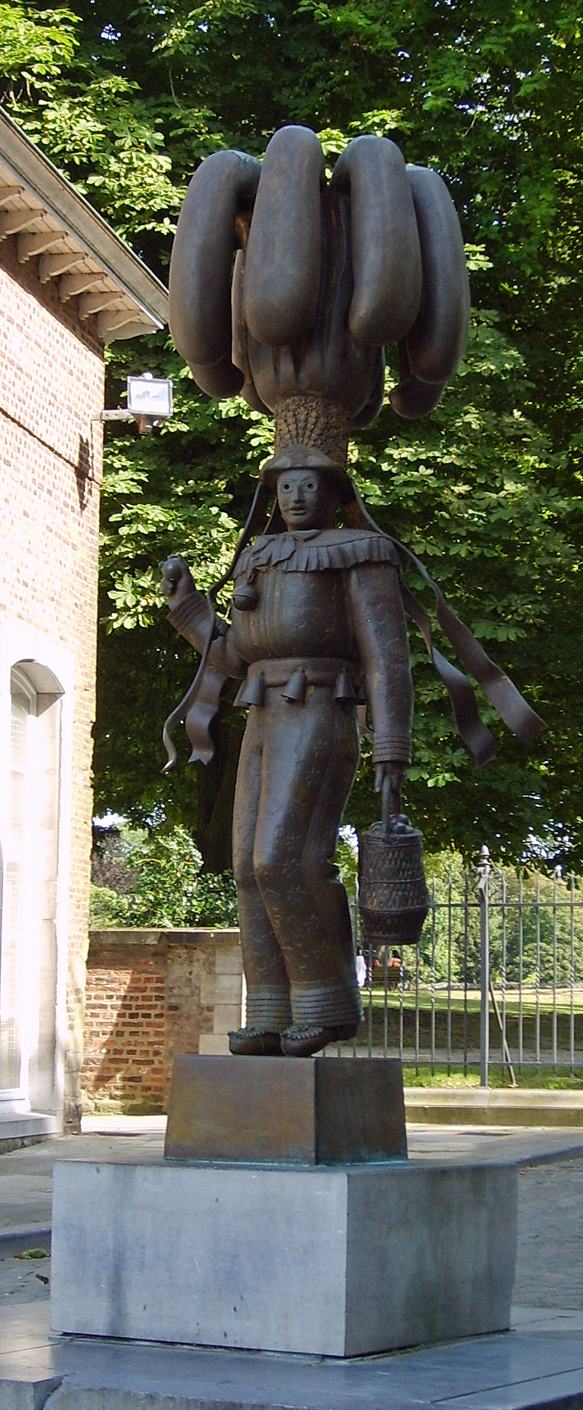 Binche (Belgium), statue of the “Gille de Binche” (1952) by Robert Delnest.